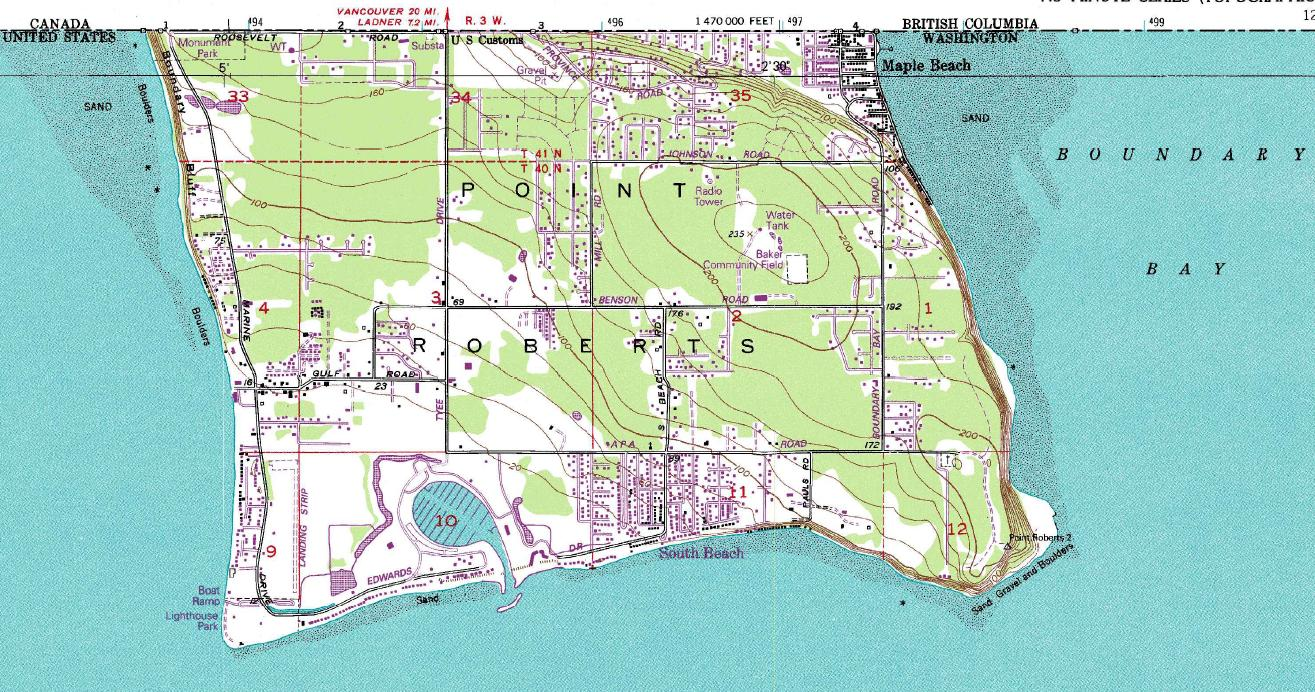 Map of Point Roberts, Washington. The area lies south of 49° northern latitude, thus is part of the United States, but is not connected to the US mainland.